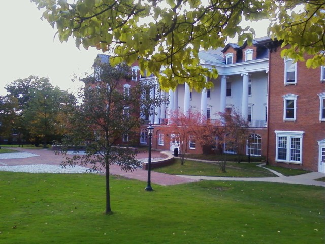 Brooks Hall from right side.